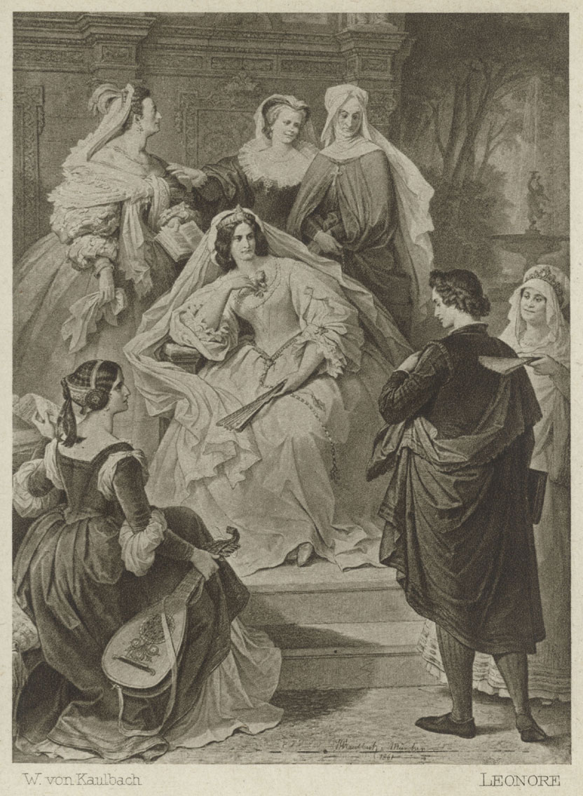 Marie zu Hohenlohe-Schillingsfürst as Duchess Leonore (Goethe's "Tasso"). Painting by Wilhelm von Kaulbach, 1864